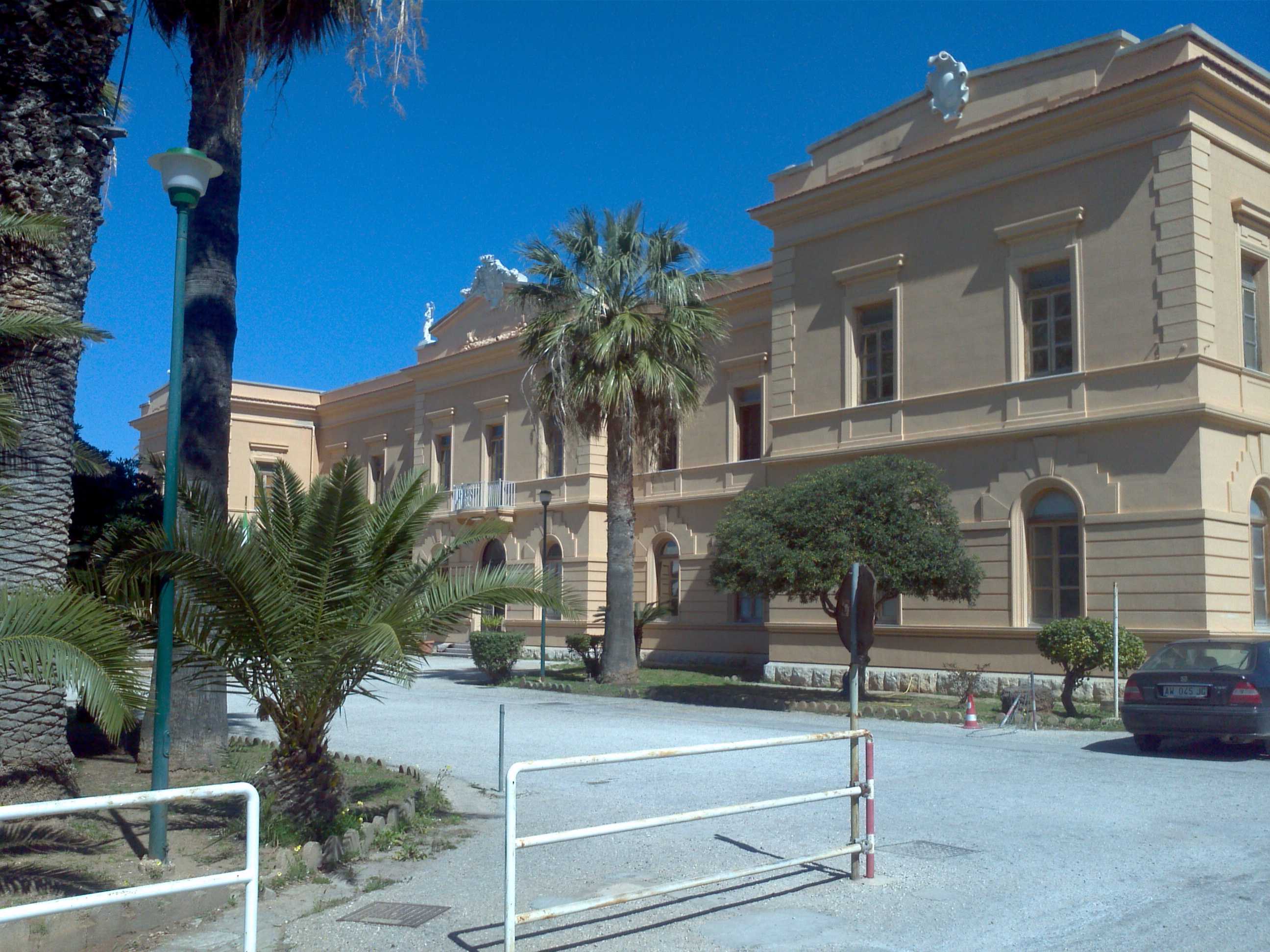 old Psichiatric Hospital (today "Citadel of health"), Trapani